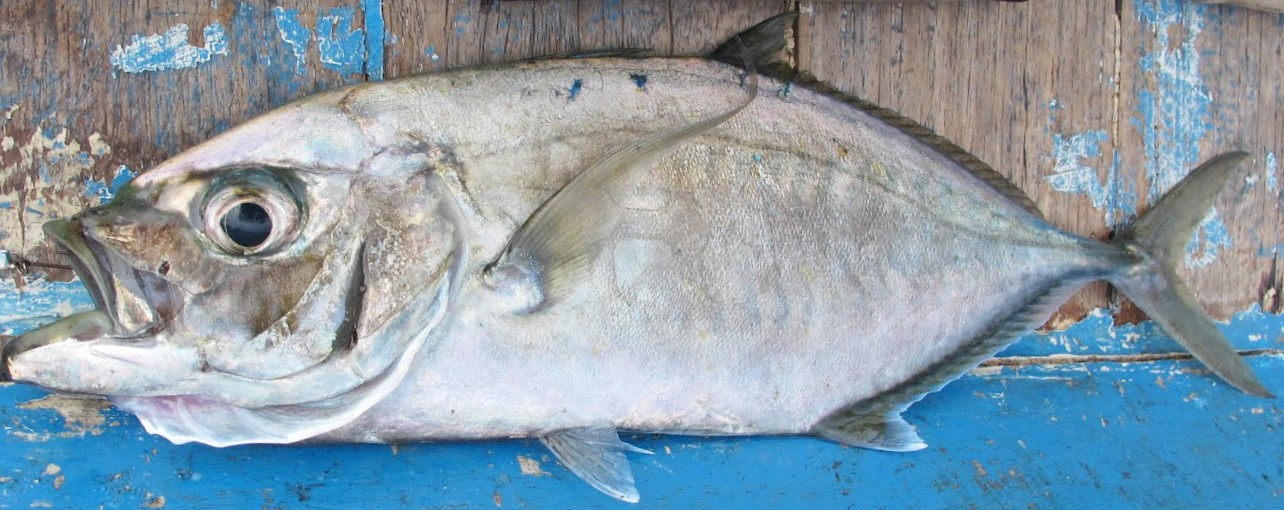 Taken from Darwin, NT